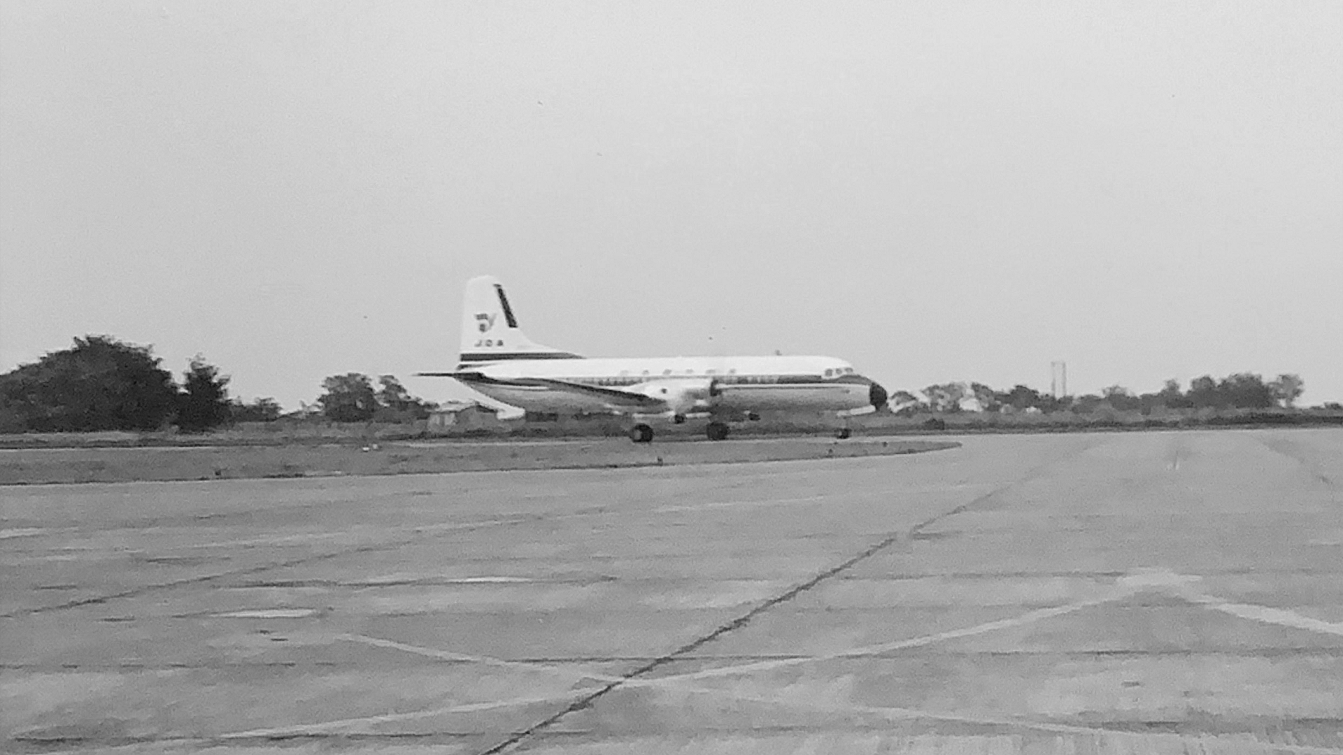 YS-11 JDA 1960s